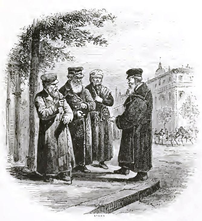 Jews of Odessa. From: Telfer, John Buchan (1876), The Crimea and Transcaucasia; being the narrative of a journey in the Kouban, in Gouria, Georgia, Armenia, Ossety, Imeritia, Swannety, and Mingrelia, and in the Tauric range. London: H.S. King & Co.